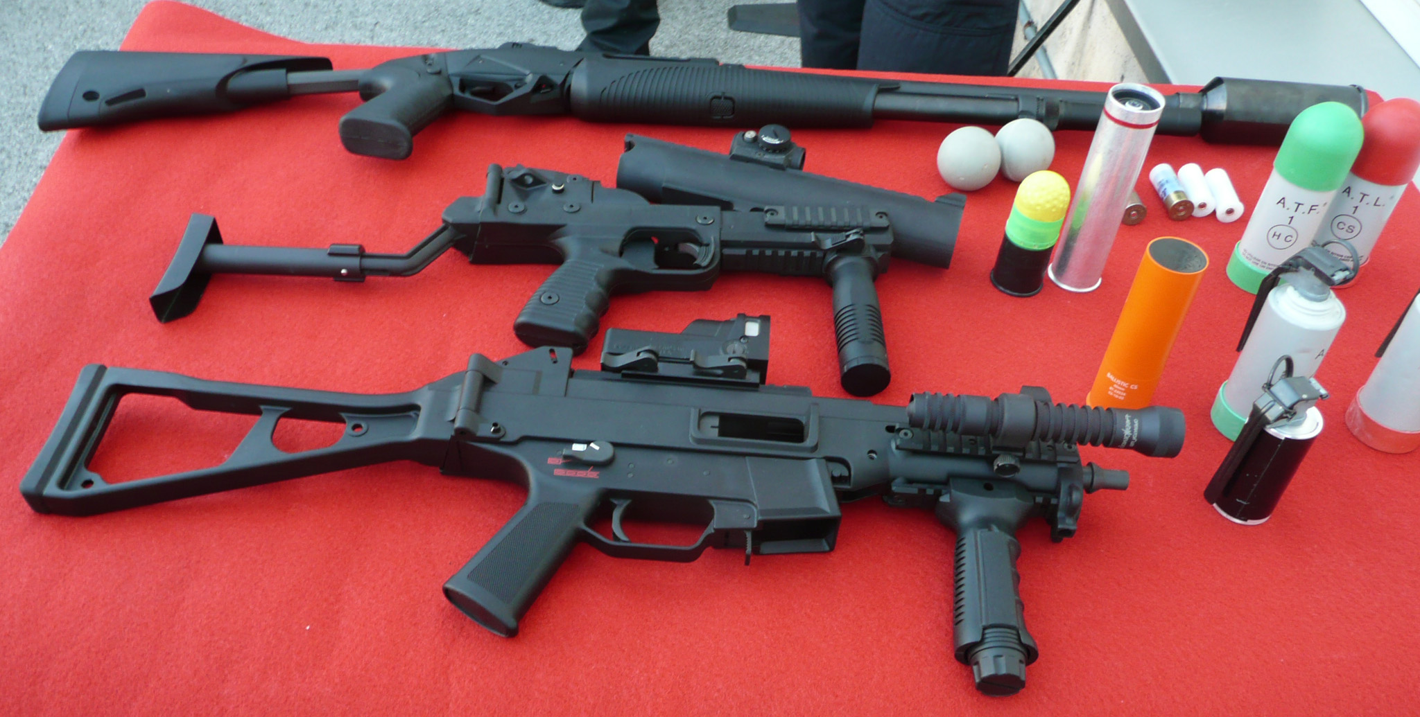 From top to bottom: rifle of balls (launches rubber balls to long distances), GL-06 with the foldable ballistic helmet visor stock (launches "ping pong" balls softer and to a lesser distance), and a UMP submachine gun (9mm bullets) for roadblocks and raids.